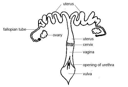 Labeled diagram of the reproductive system of a female dog drawn by J. Ruth Lawson, Otago Polytechnic, Dunedin, New Zealand, 2008.